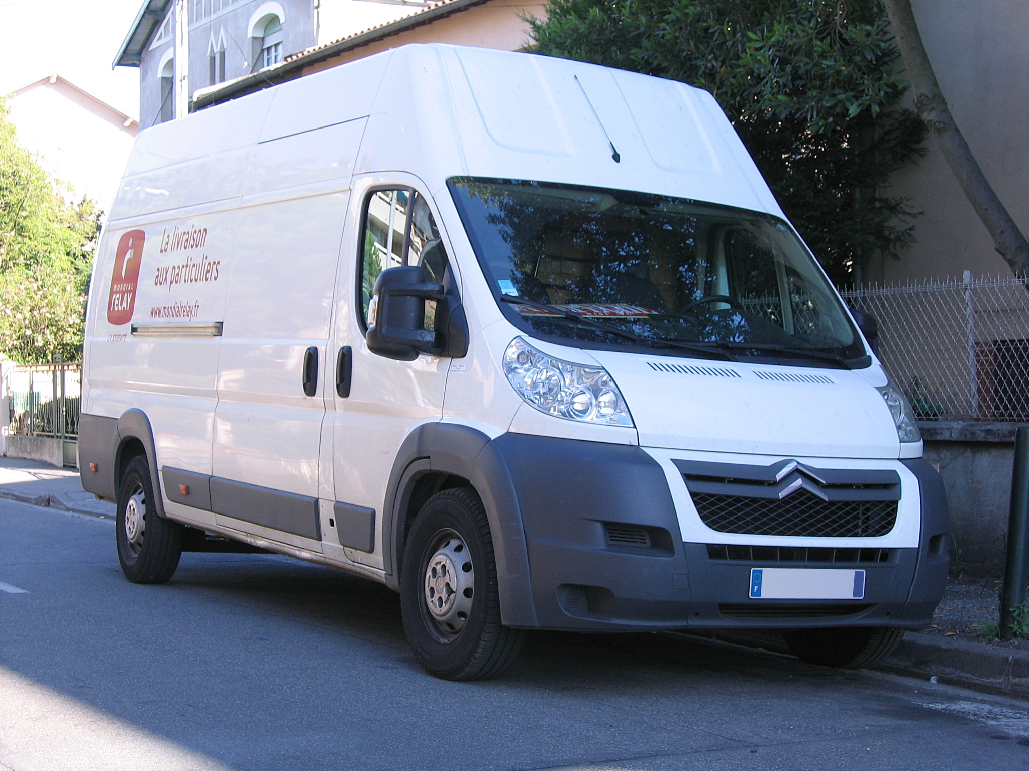 L4H3 stands for 4th length and 3rd height available in the product catalogue (i.e. the maximum possible size): 6,363 mm (250.5 in) long x 2,050 mm (80.7 in) wide x 2,764 mm (108.8 in) high (17 m3 or 22.2 cu yd of cargo space).